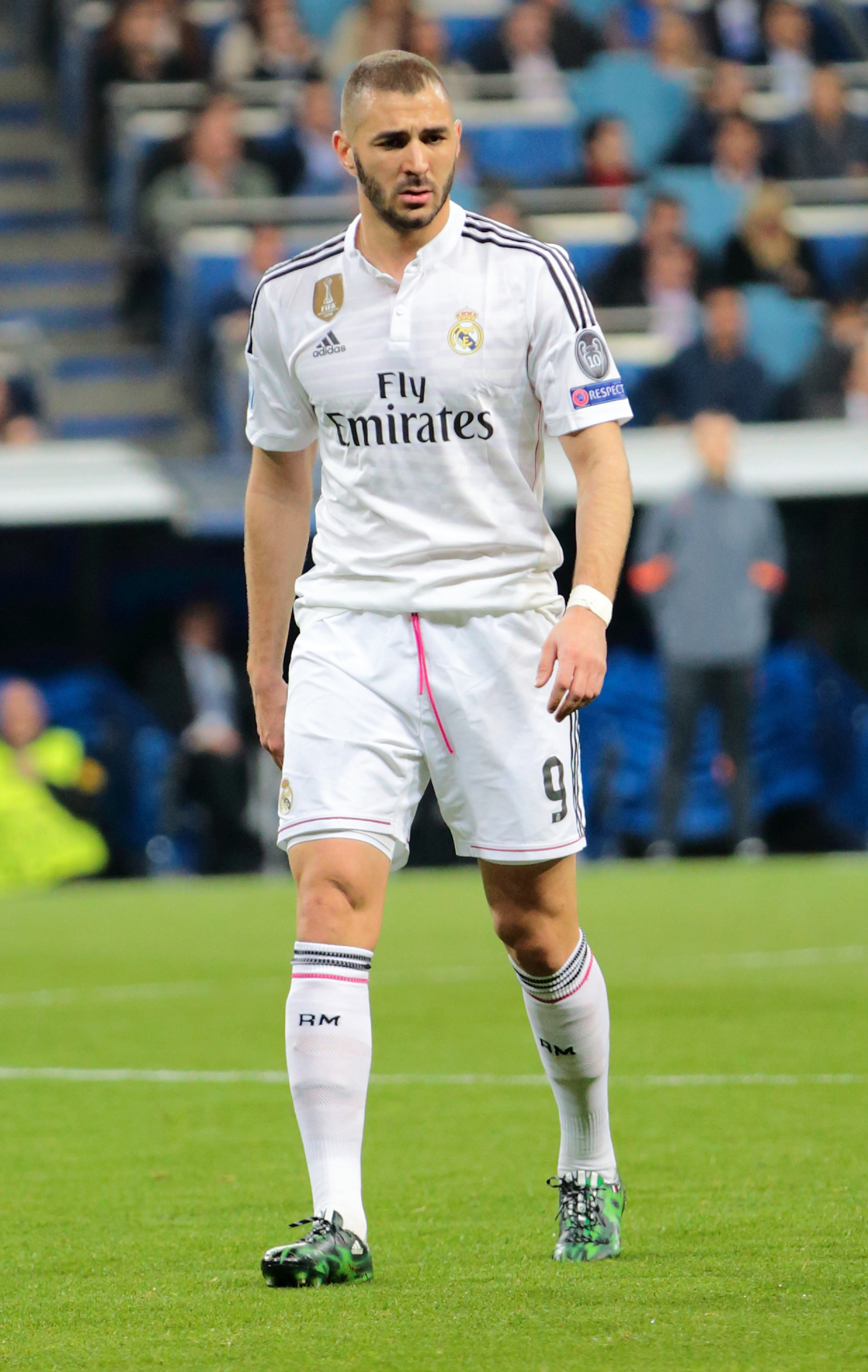 UEFA Champions league game, Real Madrid vs. FC Schalke at Estadio Santiago Bernabeu. Real Madrid lost 3-4 but advanced on a 5-4 aggregate.